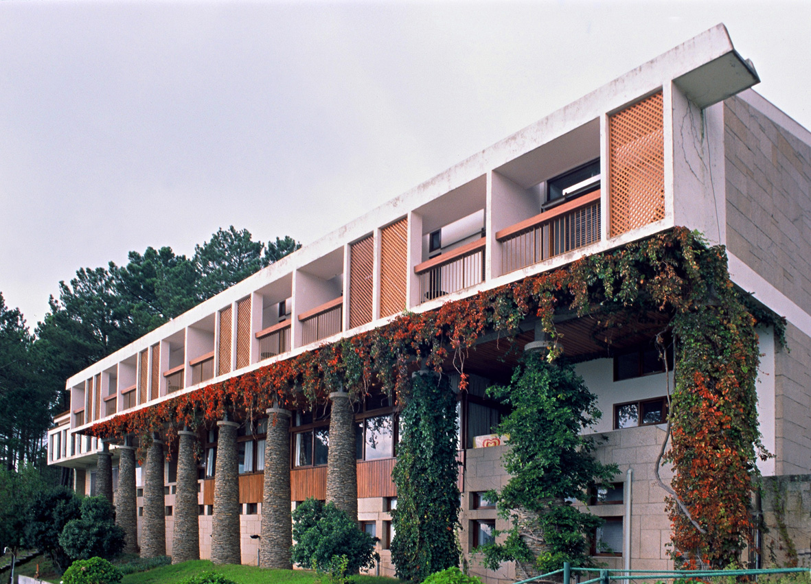 Pousada de Santa Barbara - Arq. Manuel Tainha